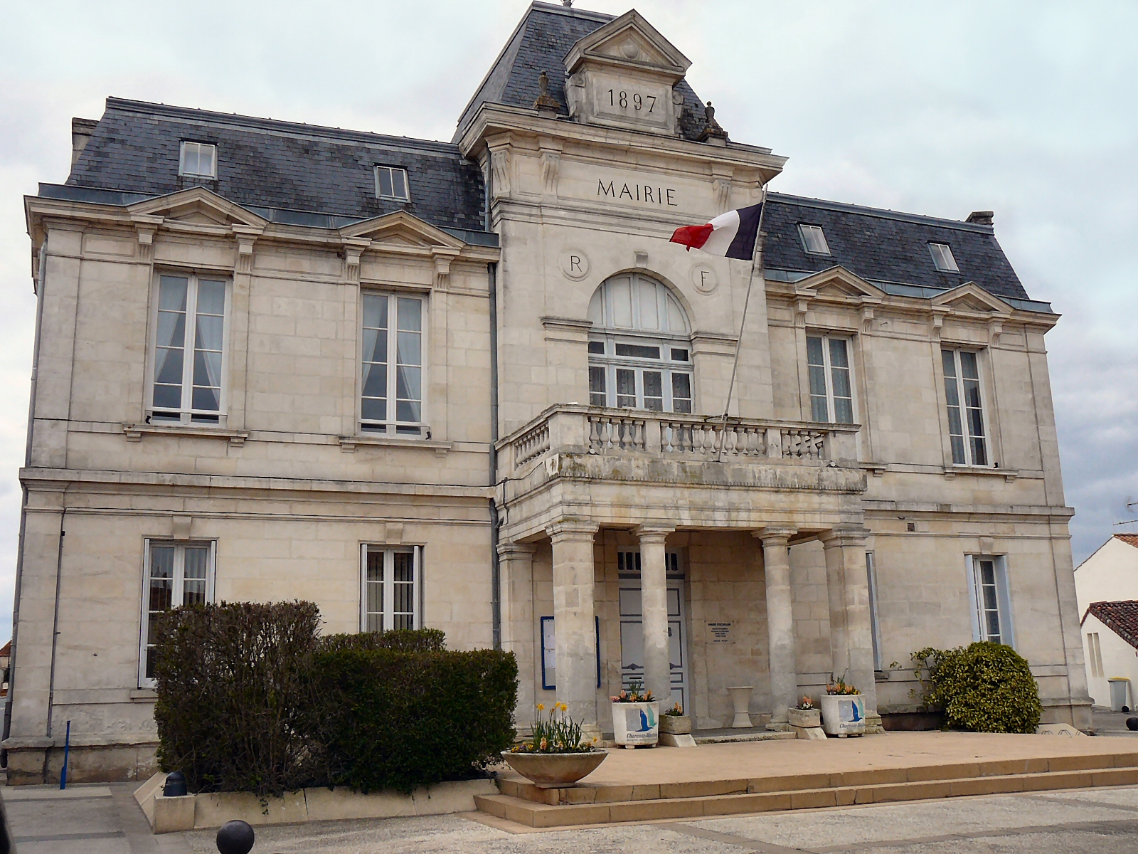 Town hall in Échillais, Charente-Maritime, Poitou-Charentes, France, Europe.